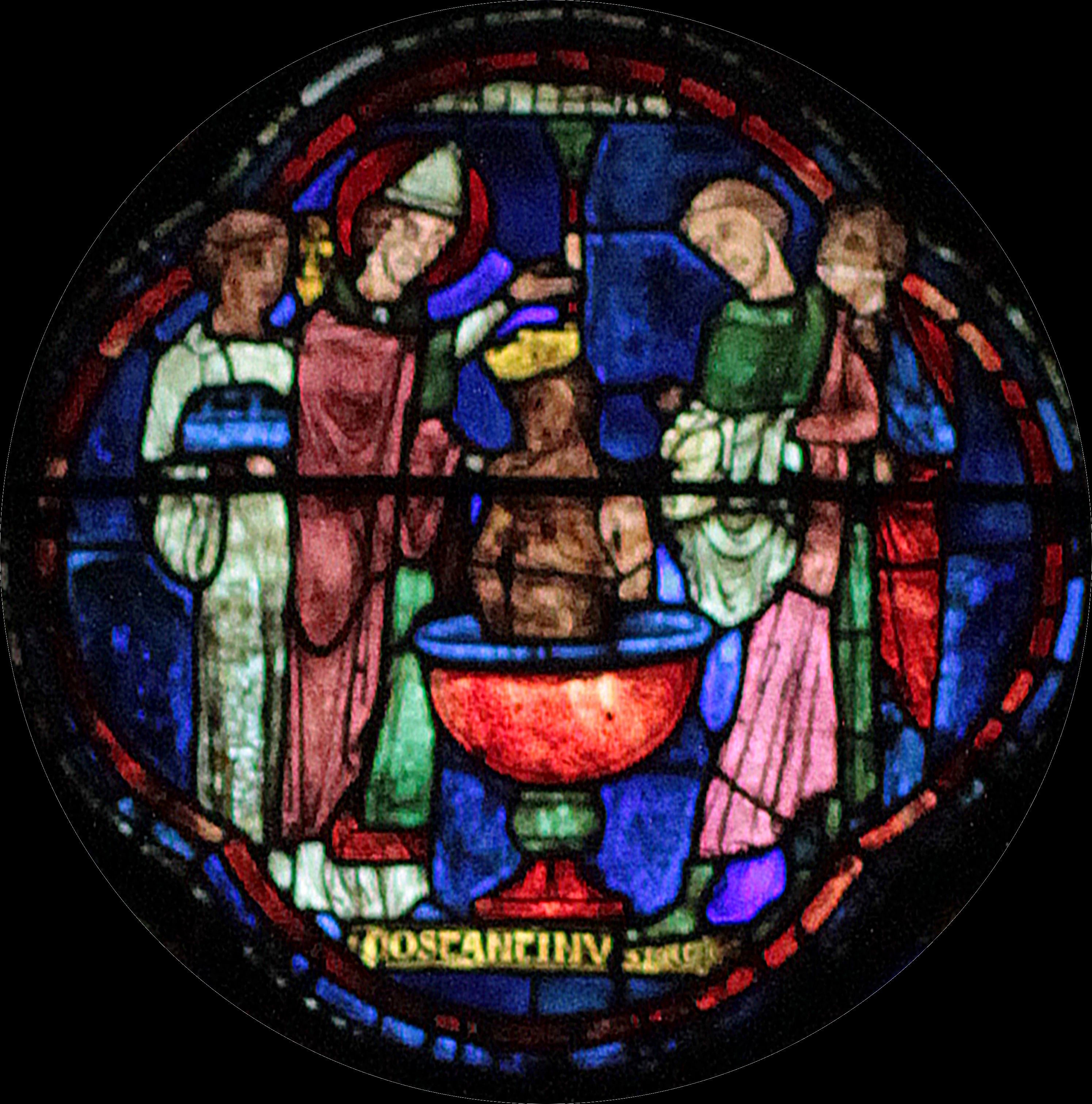 Histoire de saint Silvestre - Story of St Sylvester